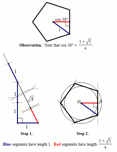 Using trigonometry to find a way to construct a regular pentagon.